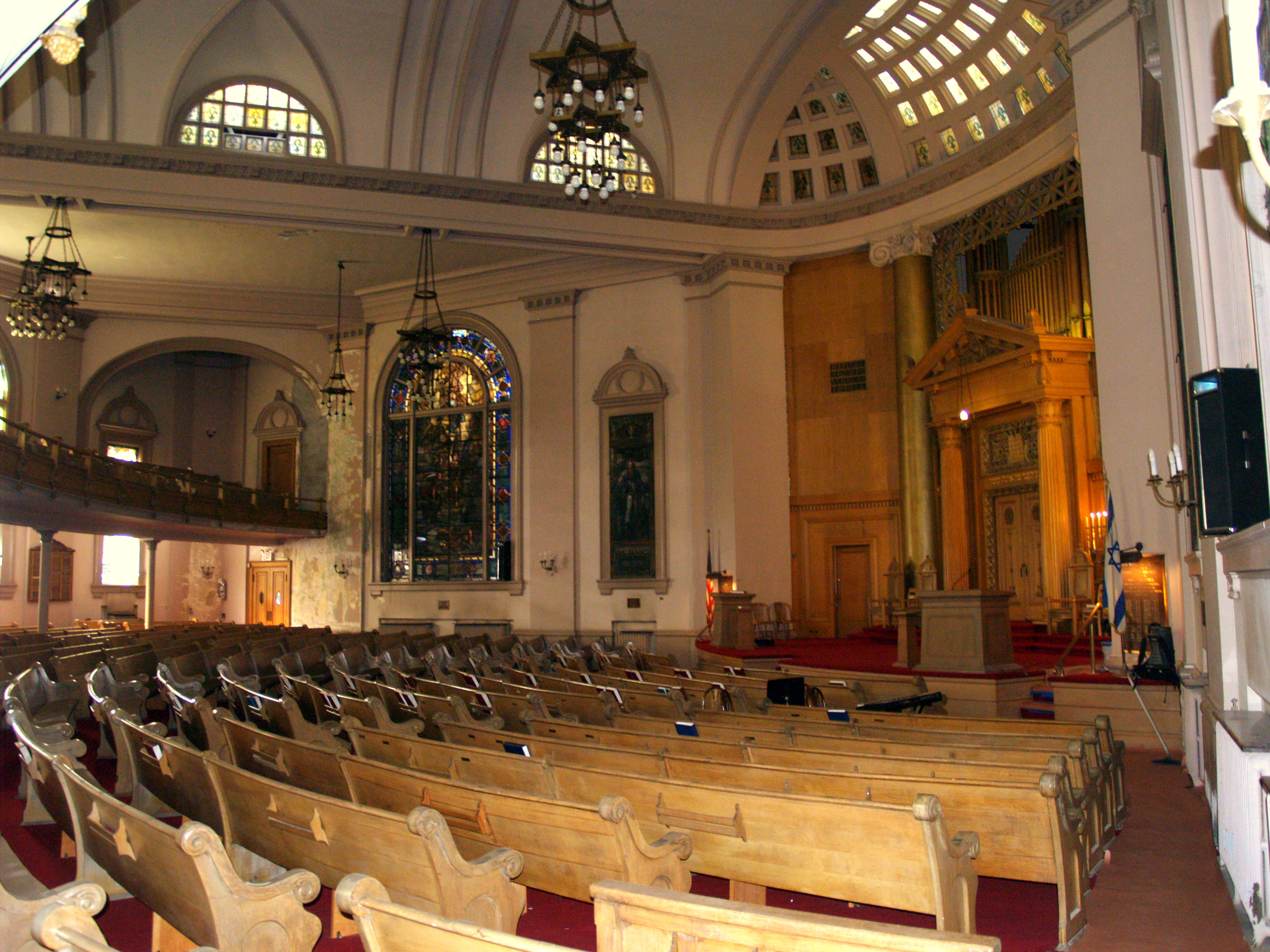 Congregation Beth Elohim in Park Slope, Brooklyn, New York.